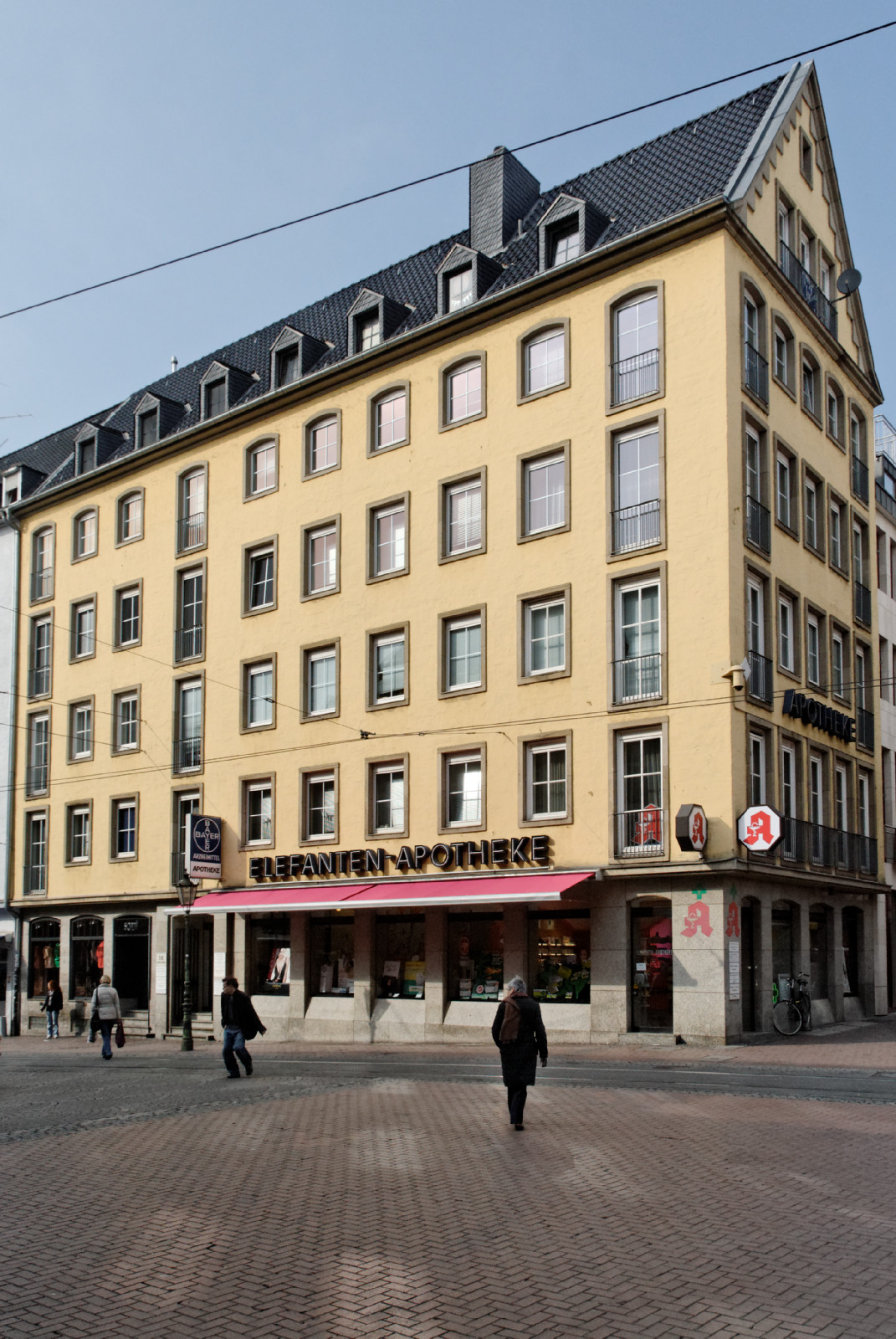 House Bolkerstraße 56 in Düsseldorf-Altstadt, Germany